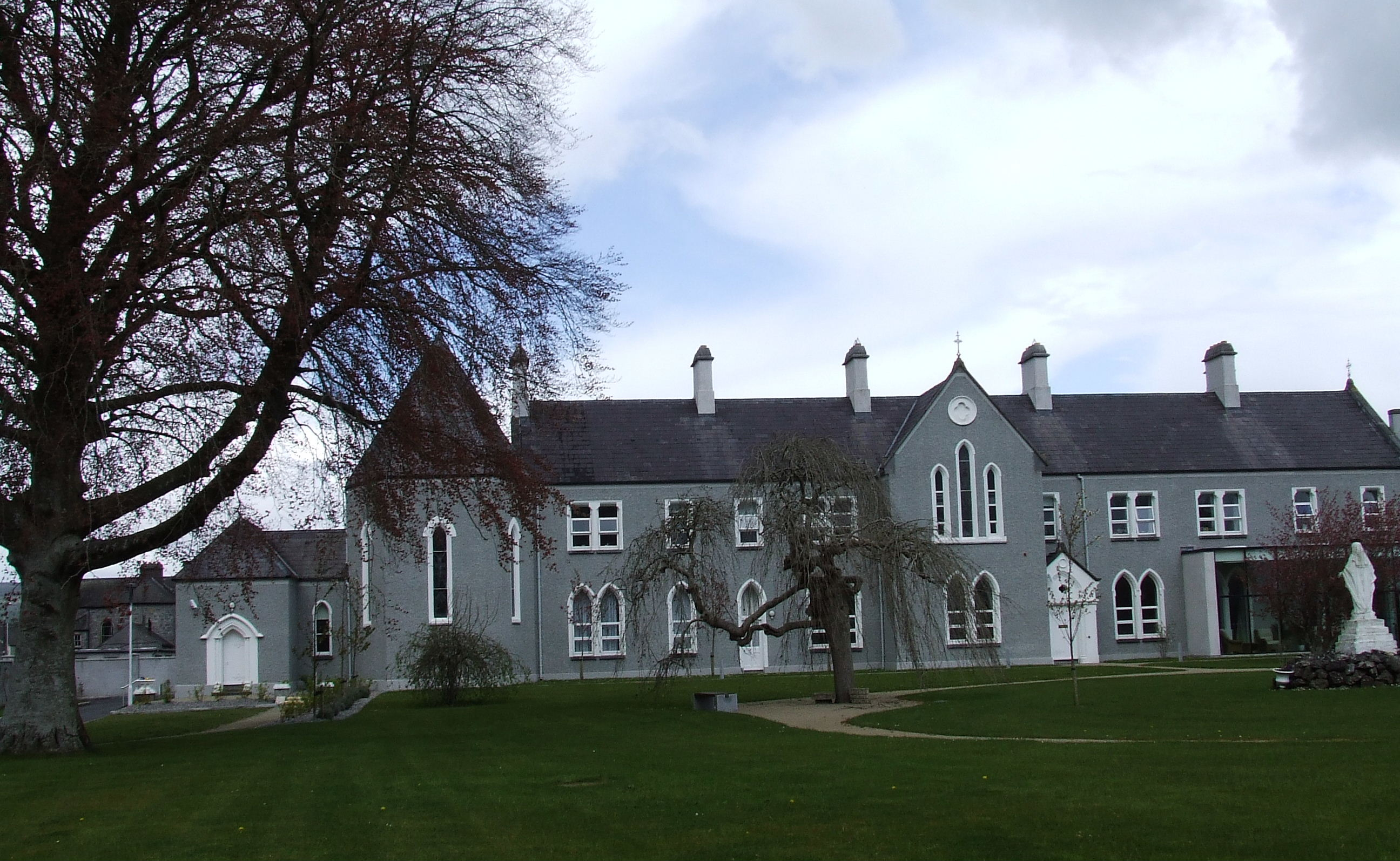 Viewed from the Church Avenue entrance, the lawns and gardens of the convent of the Sisters of Mercy, Templemore, Co. Tipperary.